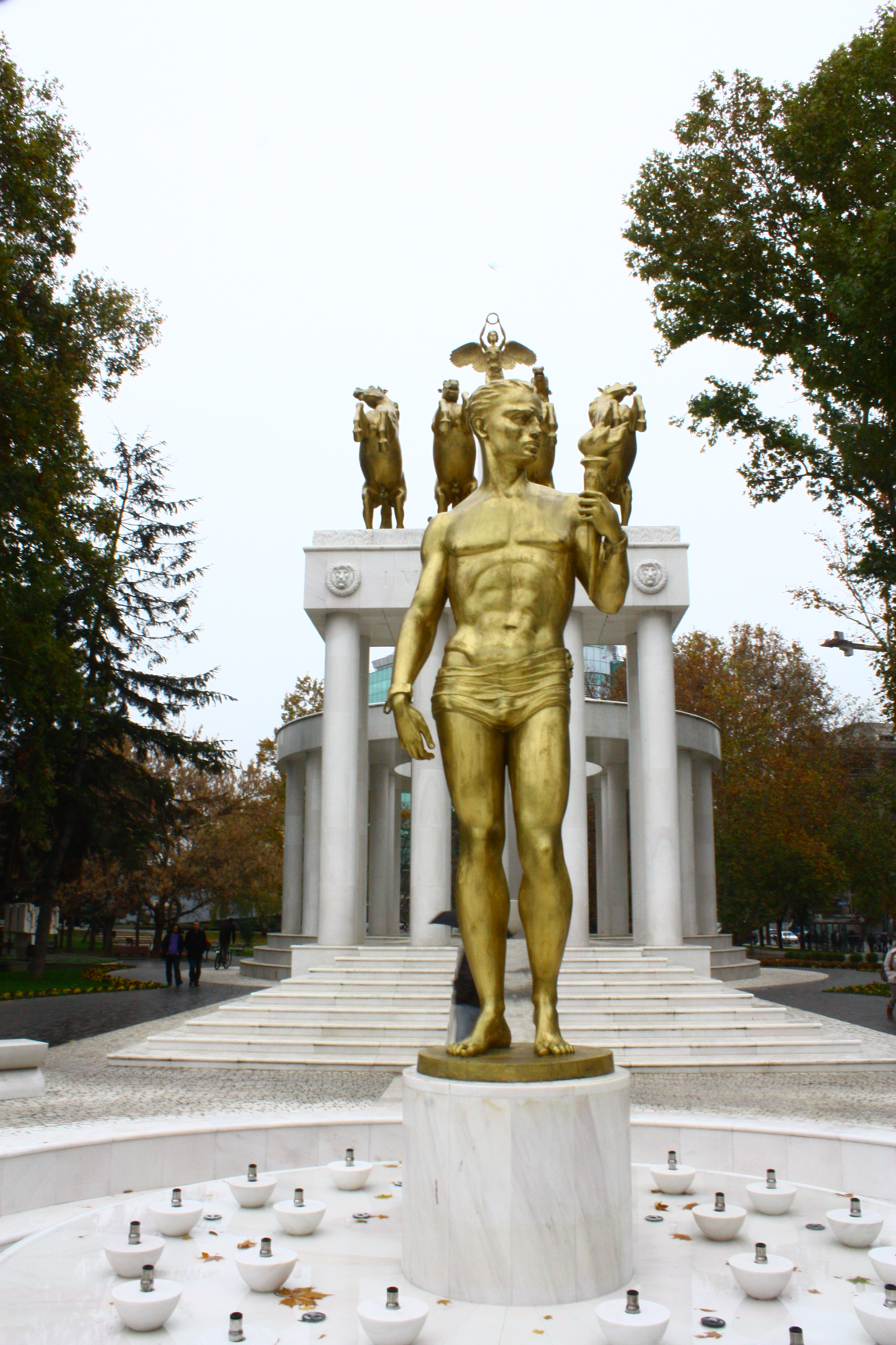 Skopje, Macedonia This image is uploaded as part of the picture contest Wiki Loves Cultural Heritage in Macedonia 2013. English | македонски | +/−